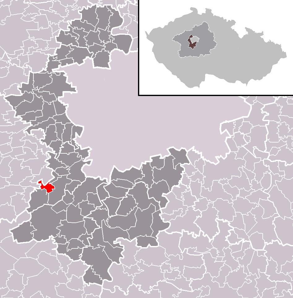 Location of Lety municipality within Prague-West District and administrative area of Černošice as a Municipality with Extended Competence.